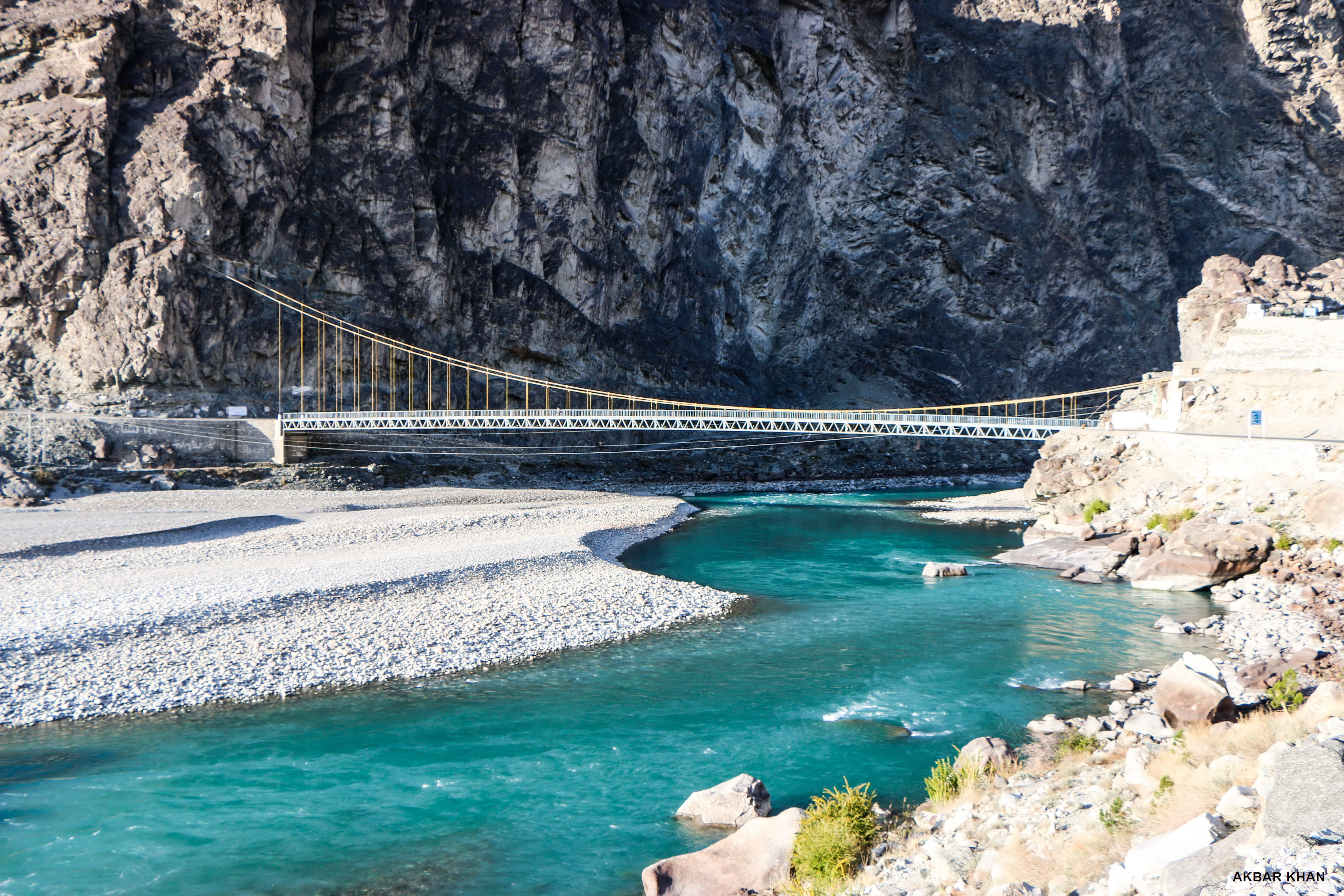 A beautiful view of Ghizer River (Gilgit River) with its turquoise waters; Kanchey Bridge